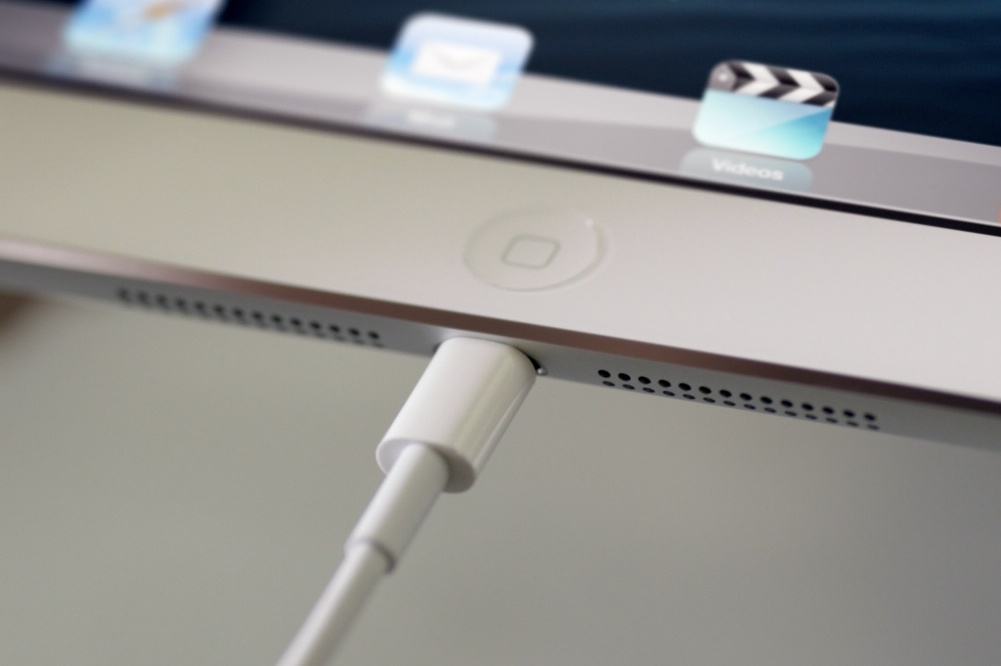 Lightning Dock in iPad mini